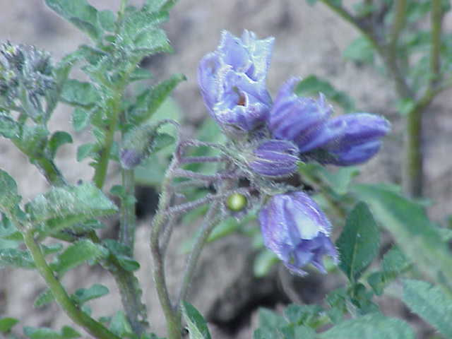 Species: Solanum chacoense Family: Solanaceae Image No. 1